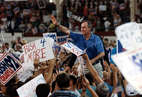 President and Mrs. Bush tour the Illinois Farm Exposition at the Illinois State Fairgrounds and addresses the Springfield Community in Springfield, IL.